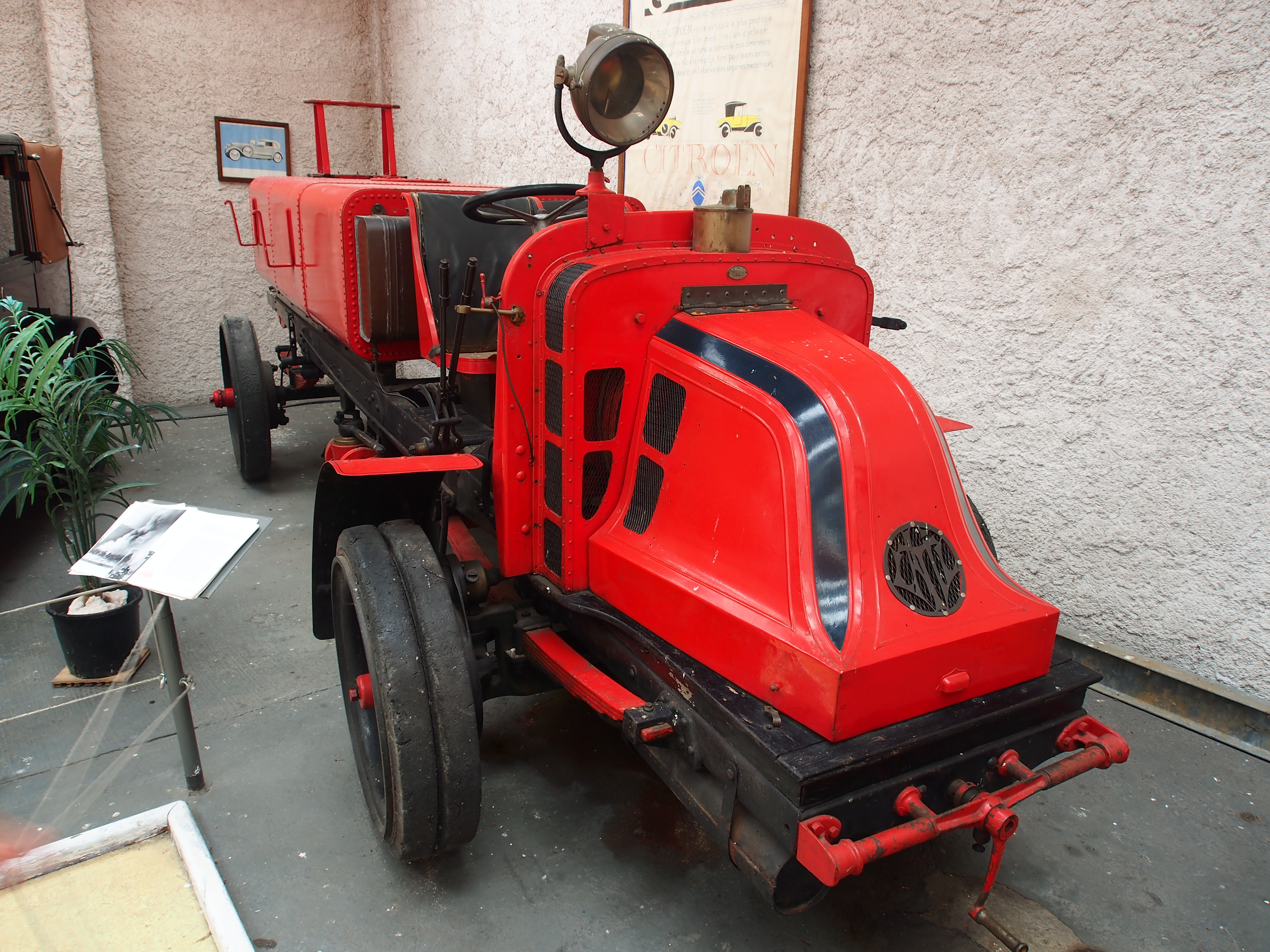 Photographed at the Association Lorraine des Amateurs d'Automobiles de collection et de loisirs. Please help me identify this type and replace this text with it! Thanks.